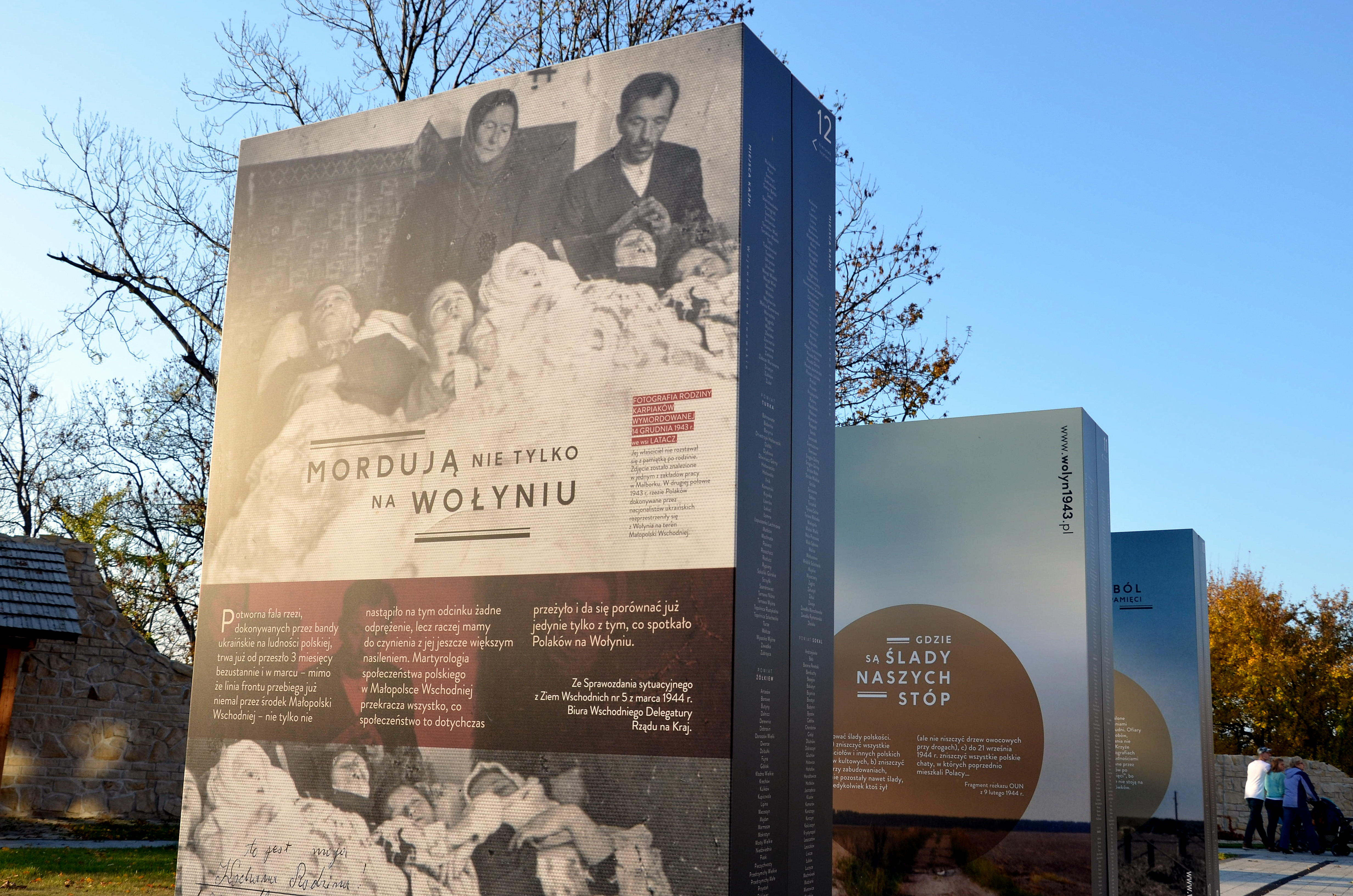 Wołyń 1943 (exhibition)